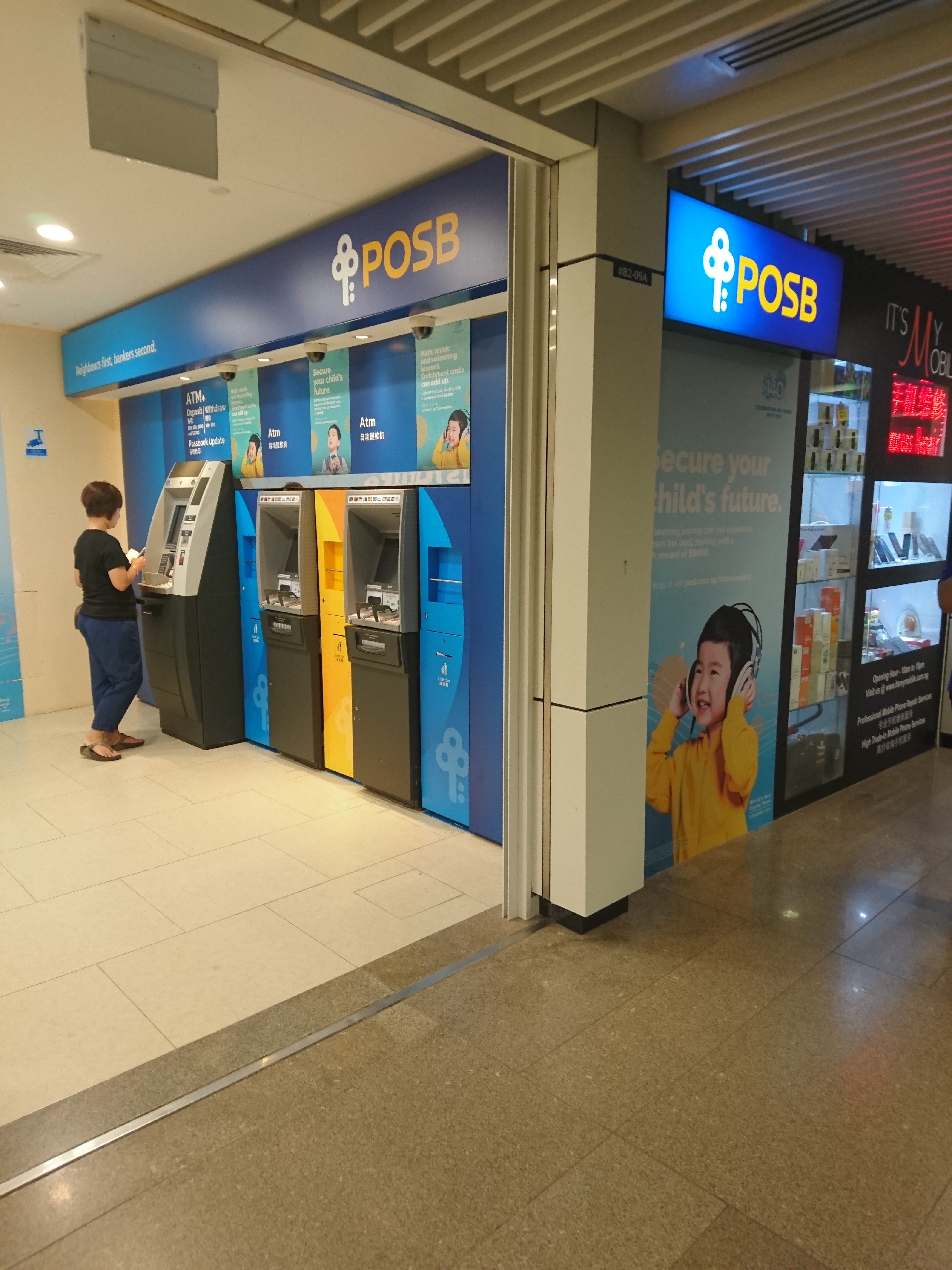 POSB Bank ATMs and Cash Deposit Machines located within Bugis MRT Station